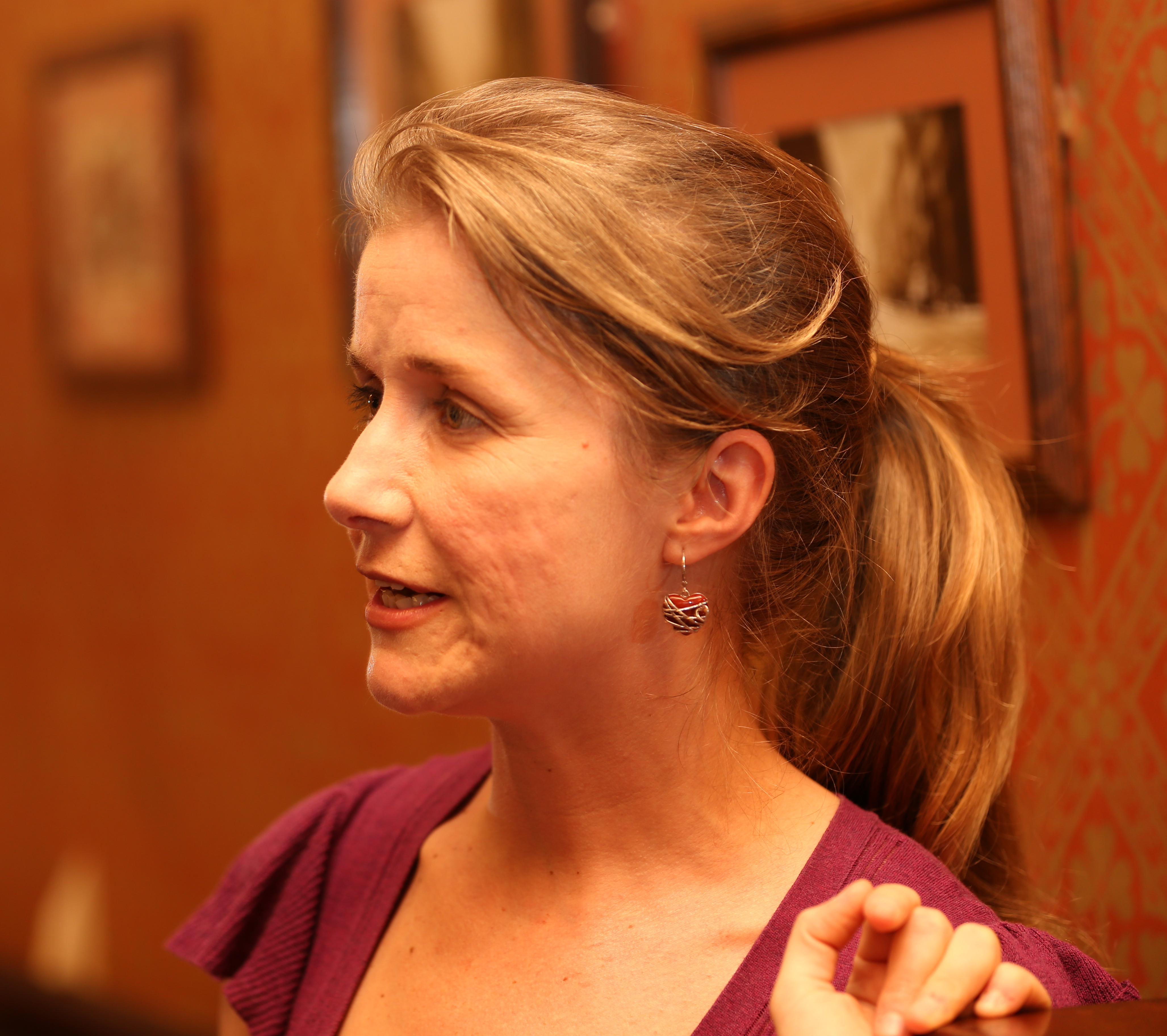 Brooke Magnanti presents a talk on her book "The Sex Myth" at a Leeds Skeptics event.